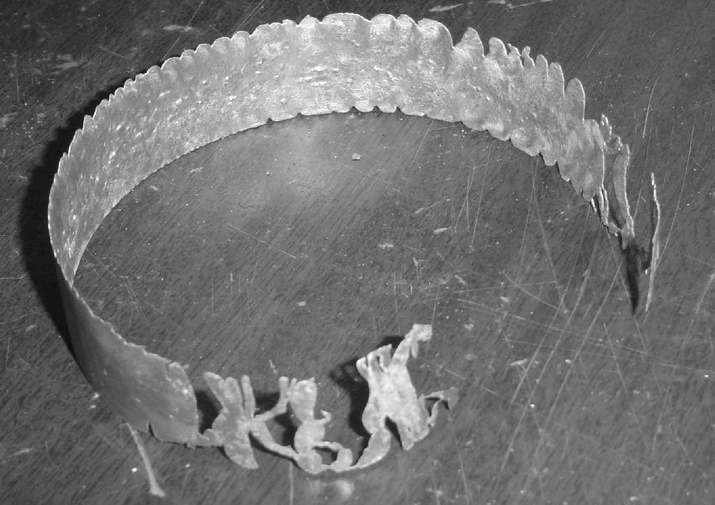 Balansirovka-rotora-04